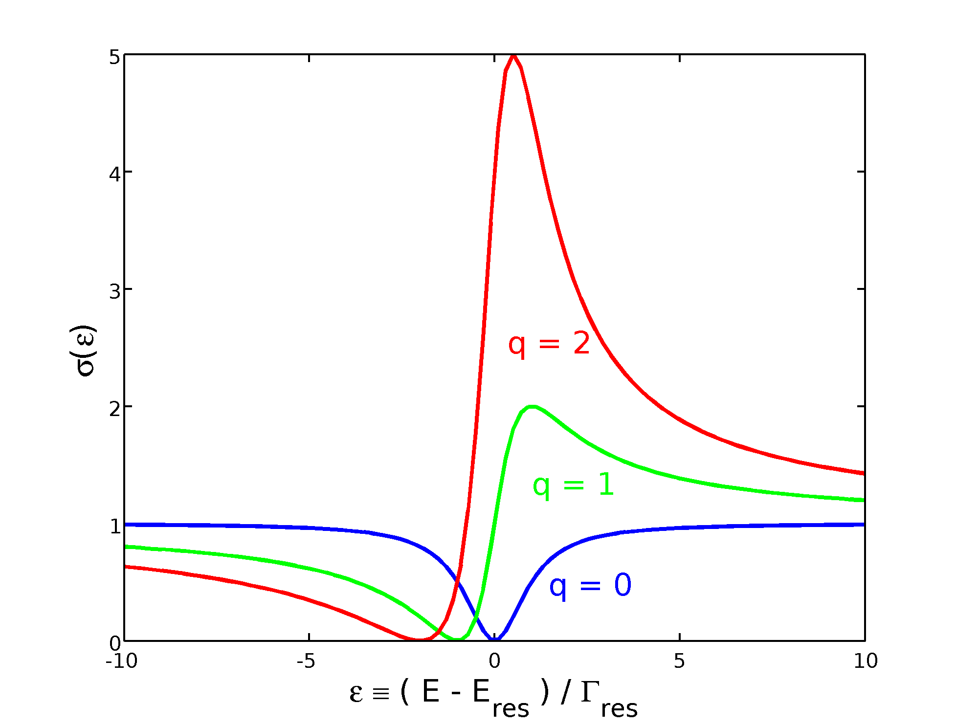 Plot of scattering cross-sections featuring the Fano line-shape for different values of the parameter q.